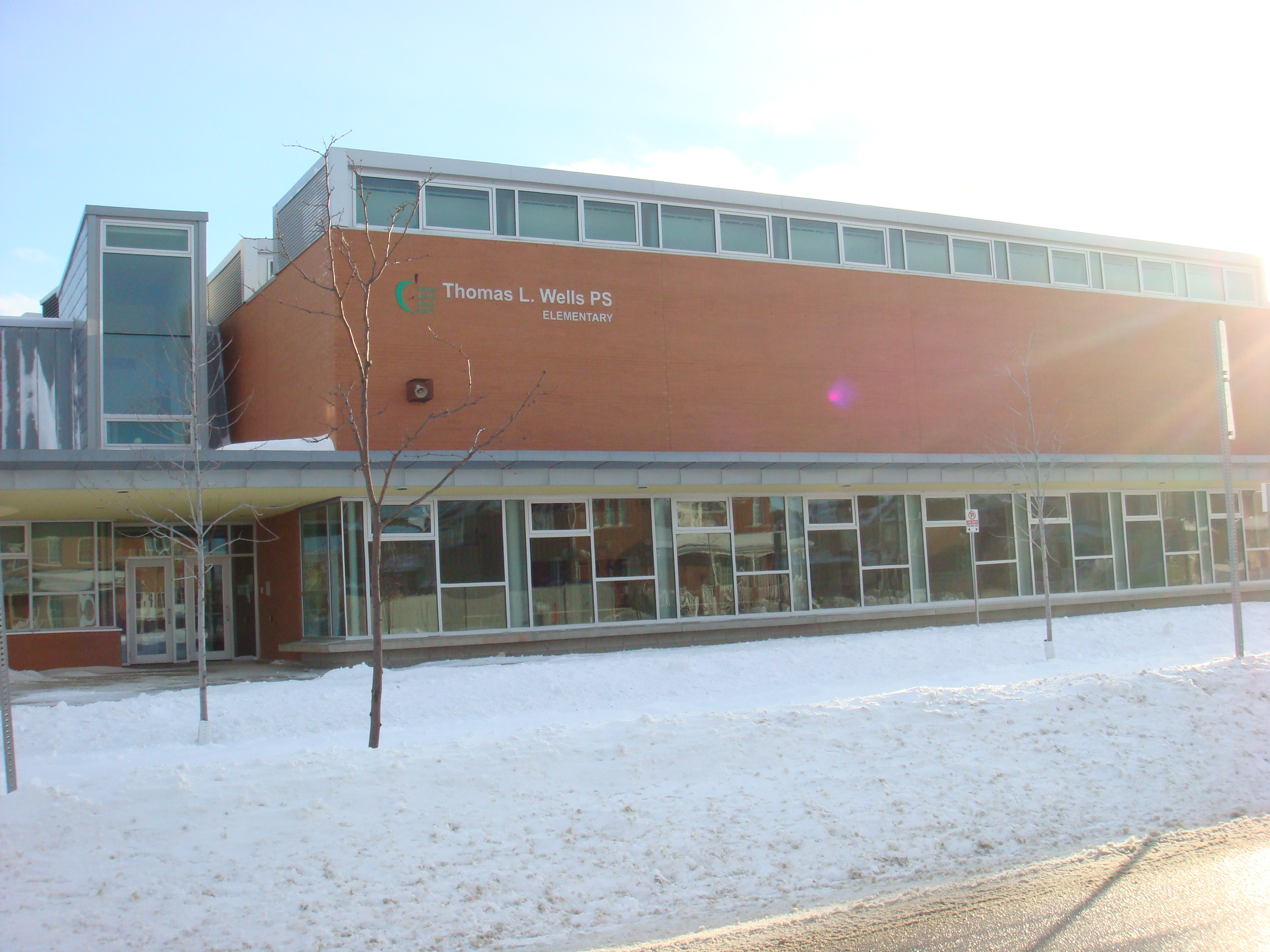 Thomas Wells Public School, Toronto ON